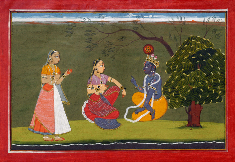 Bahsoli painting of Radha and Krishna in Discussion, (An illustration from Gita Govinda by Artist manaku) Gouache on paper